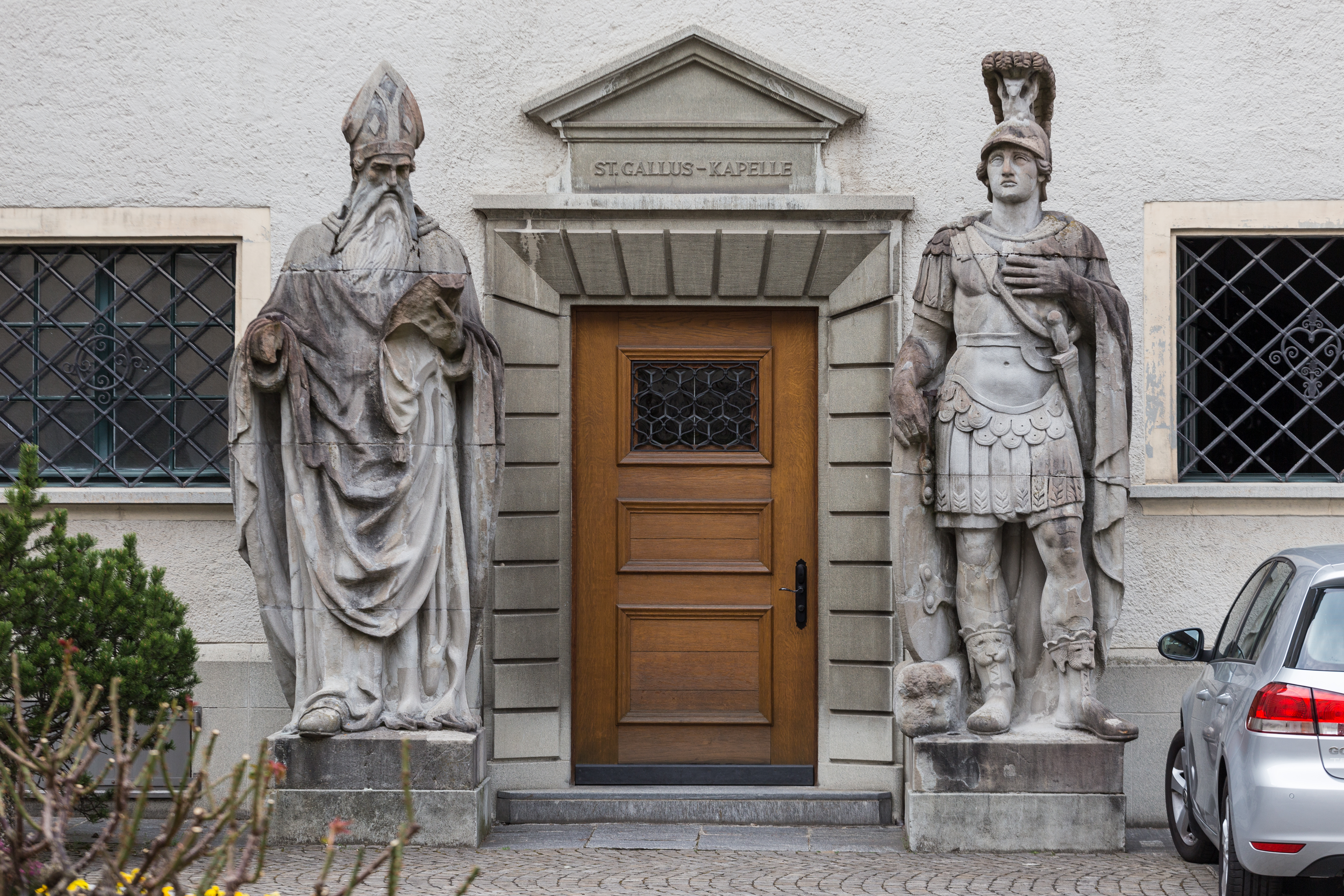 Entrance to Chapelle of Saint-Gallus, guarded by Desiderius of Vienne and Saint Mauritius.